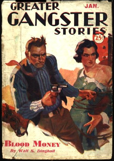 Cover of the pulp magazine Greater Gangster Stories (January 1934, vol. 10, no. 4) featuring Blood Money by Walt S. Dinghall.